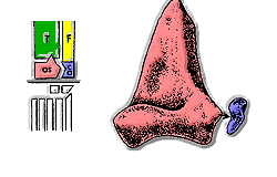 "Advanced mesotarsal" ankle found in ornithodires, dinosaurs, birds, pterosaurs.